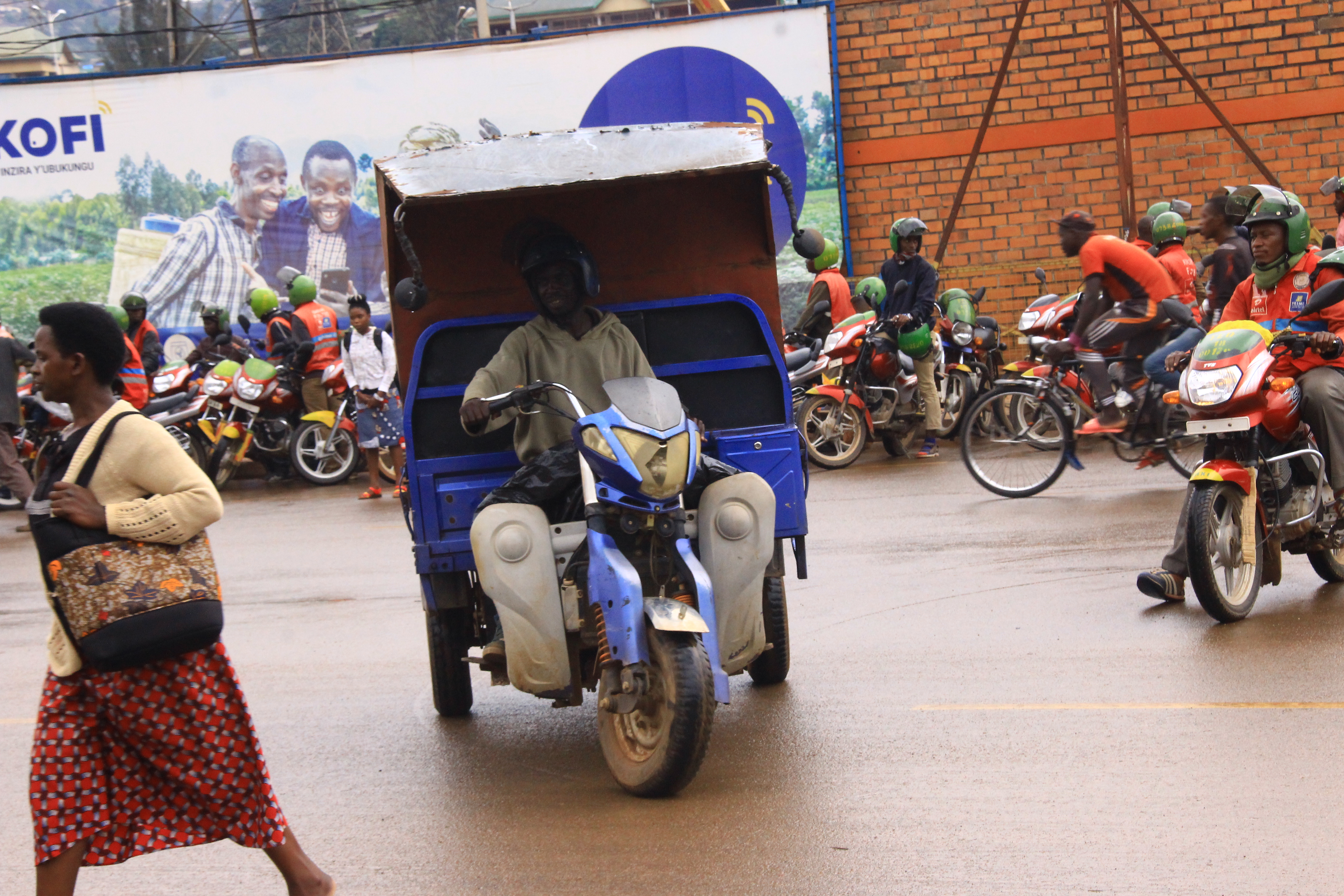 Lifan tuk tuk crossing the road at Nyabugogo This is an image with the theme "Africa on the Move or Transport" from: Rwanda